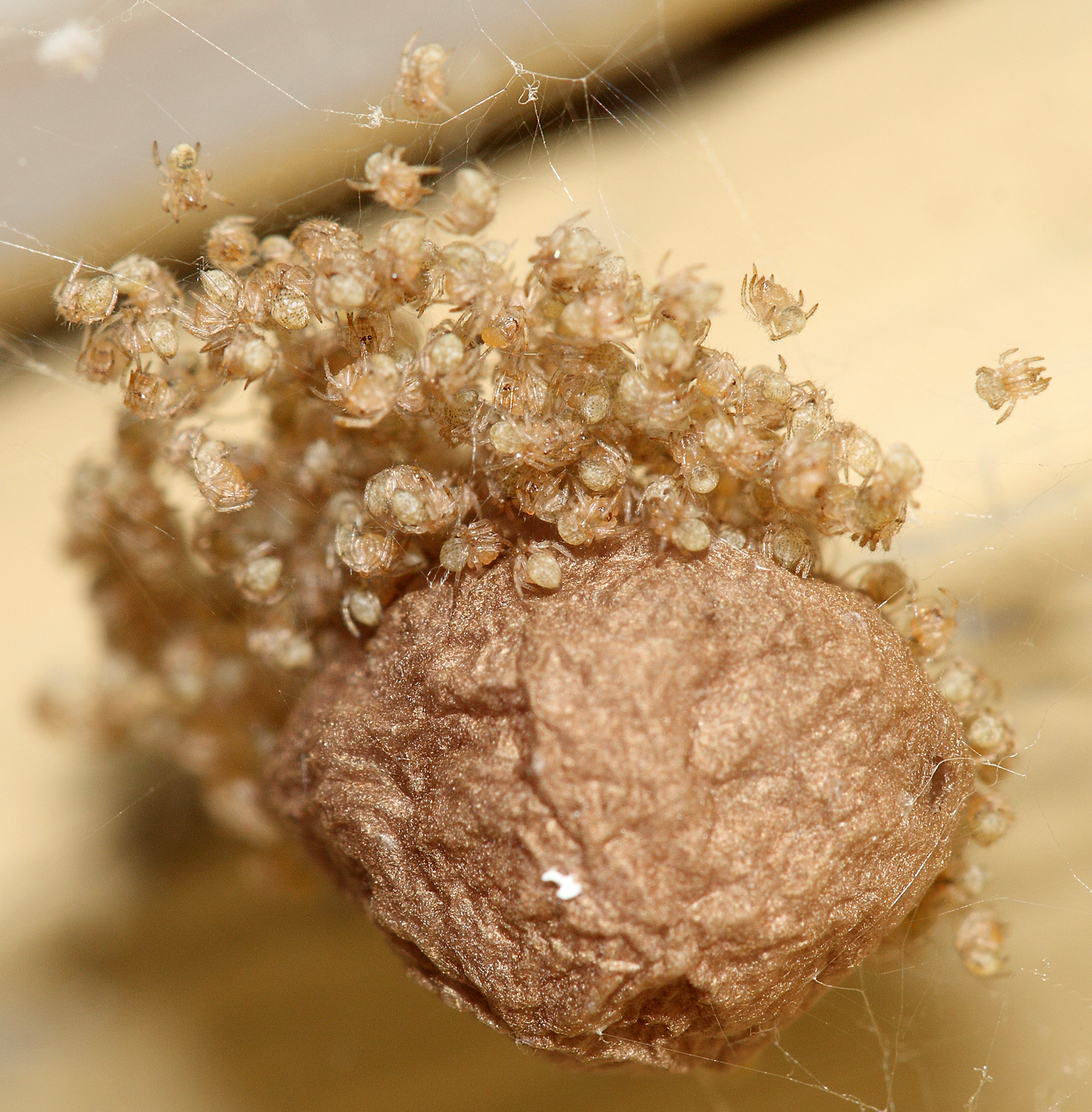 This is an egg sac of a Common House Spider that recently hatched. The spiderlings atop the hatched egg sac are likely three days old at most and roughly the size of a pepper grain each. This photo is governed by the Creative Commons 3.0 license.